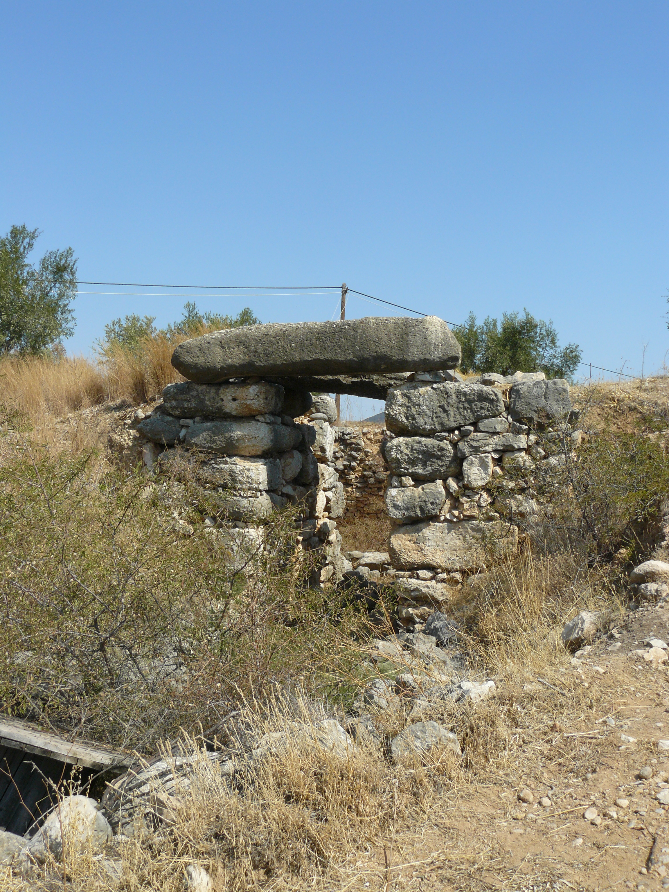 Mycenae: Door of the Tomb of Epano Phournos.